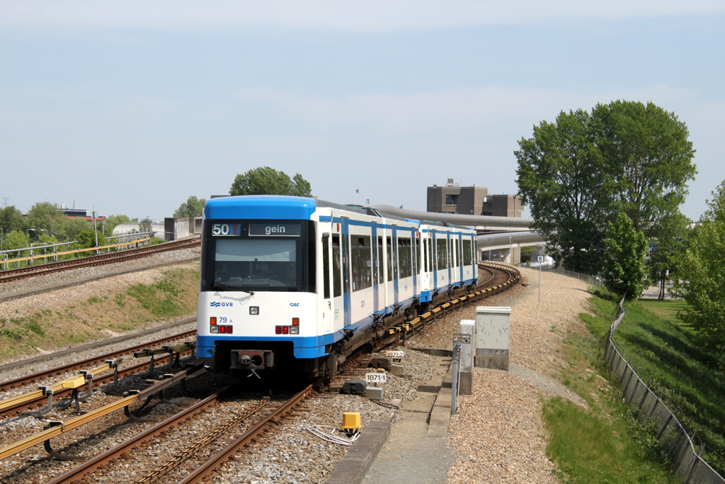 CAF metro 79, metroline 50, Overamstel (Amsterdam)